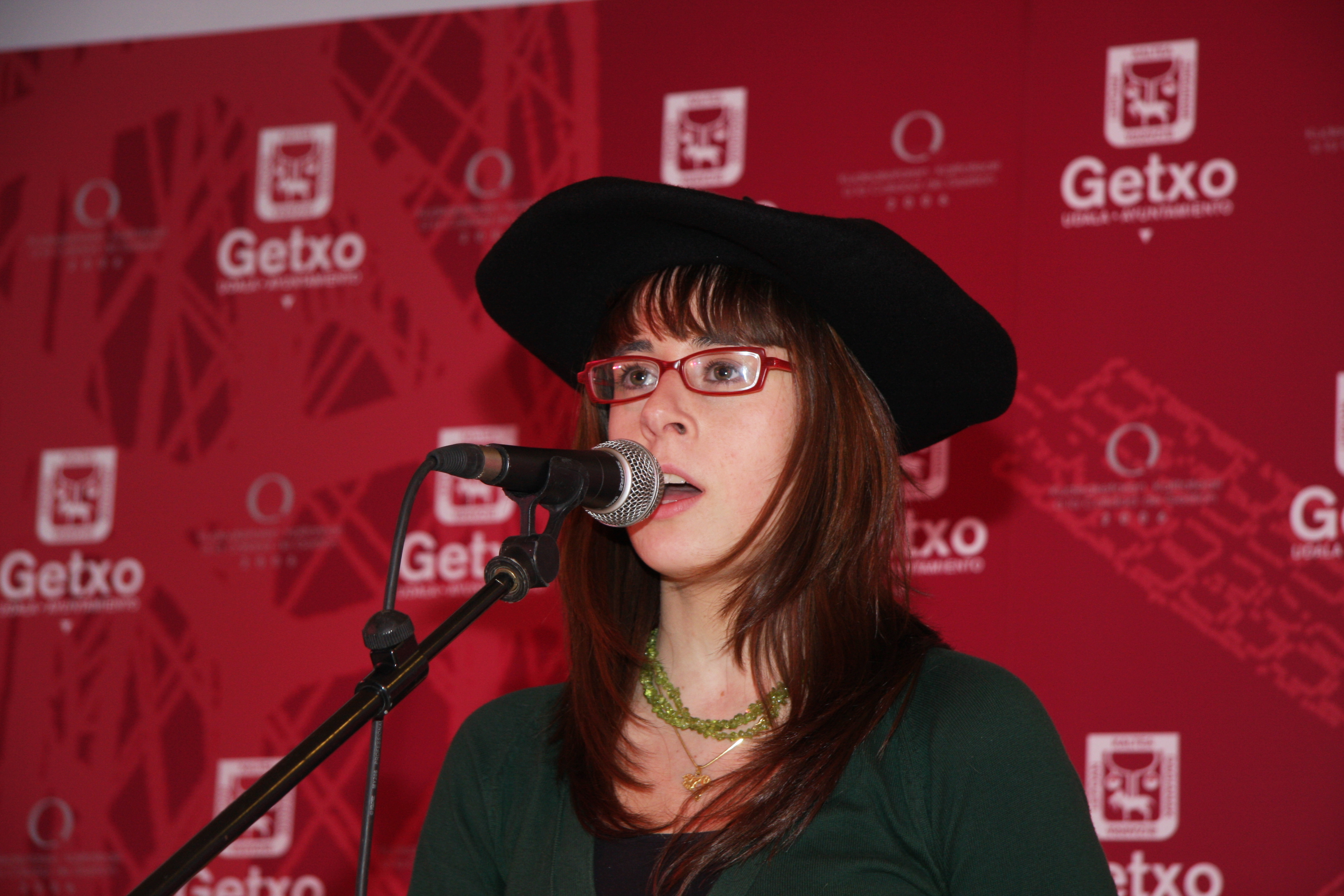 Maddalen Arzallus Antia